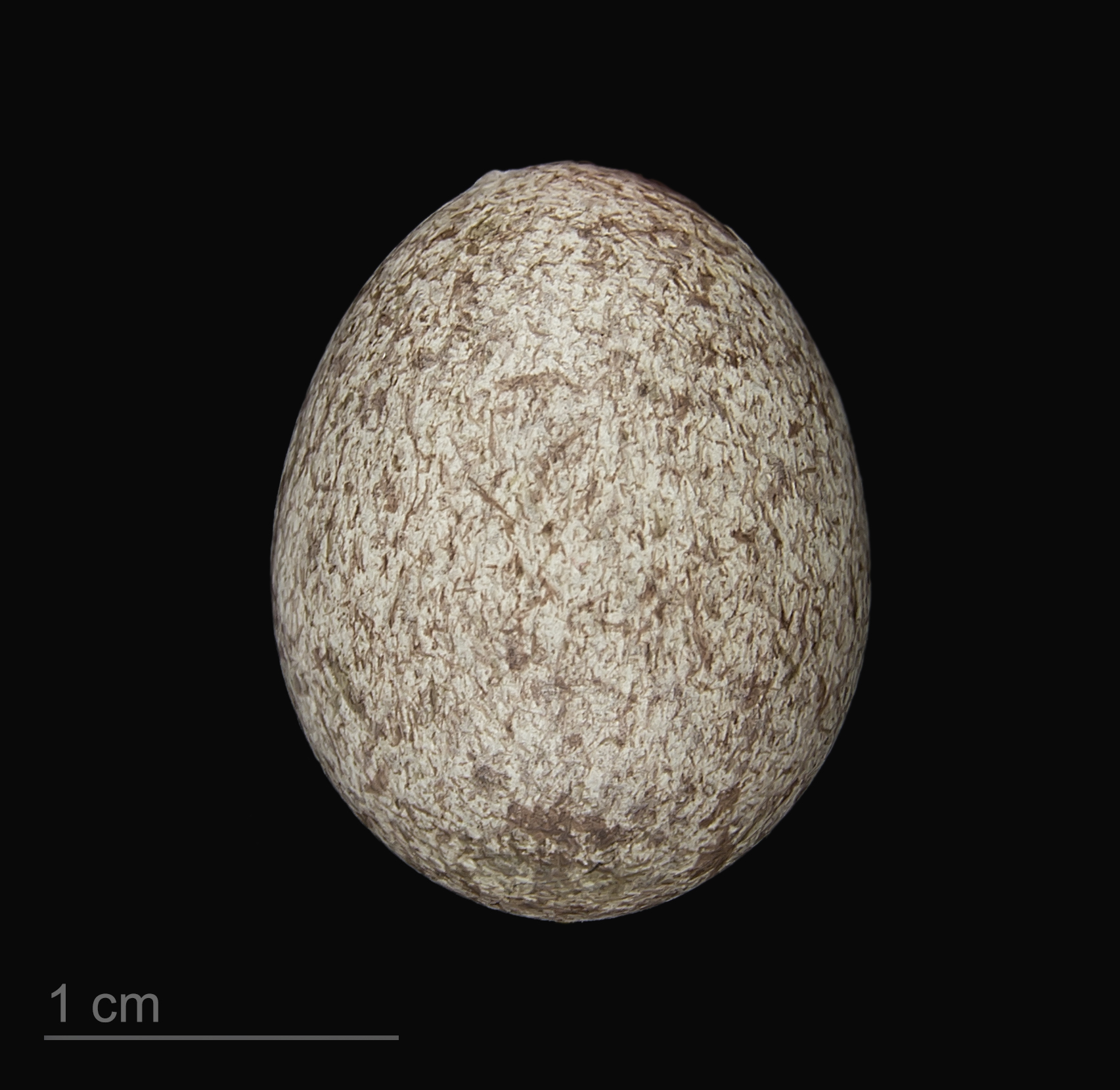 Egg of meadow pipit Collection of Jacques Perrin de Brichambaut.